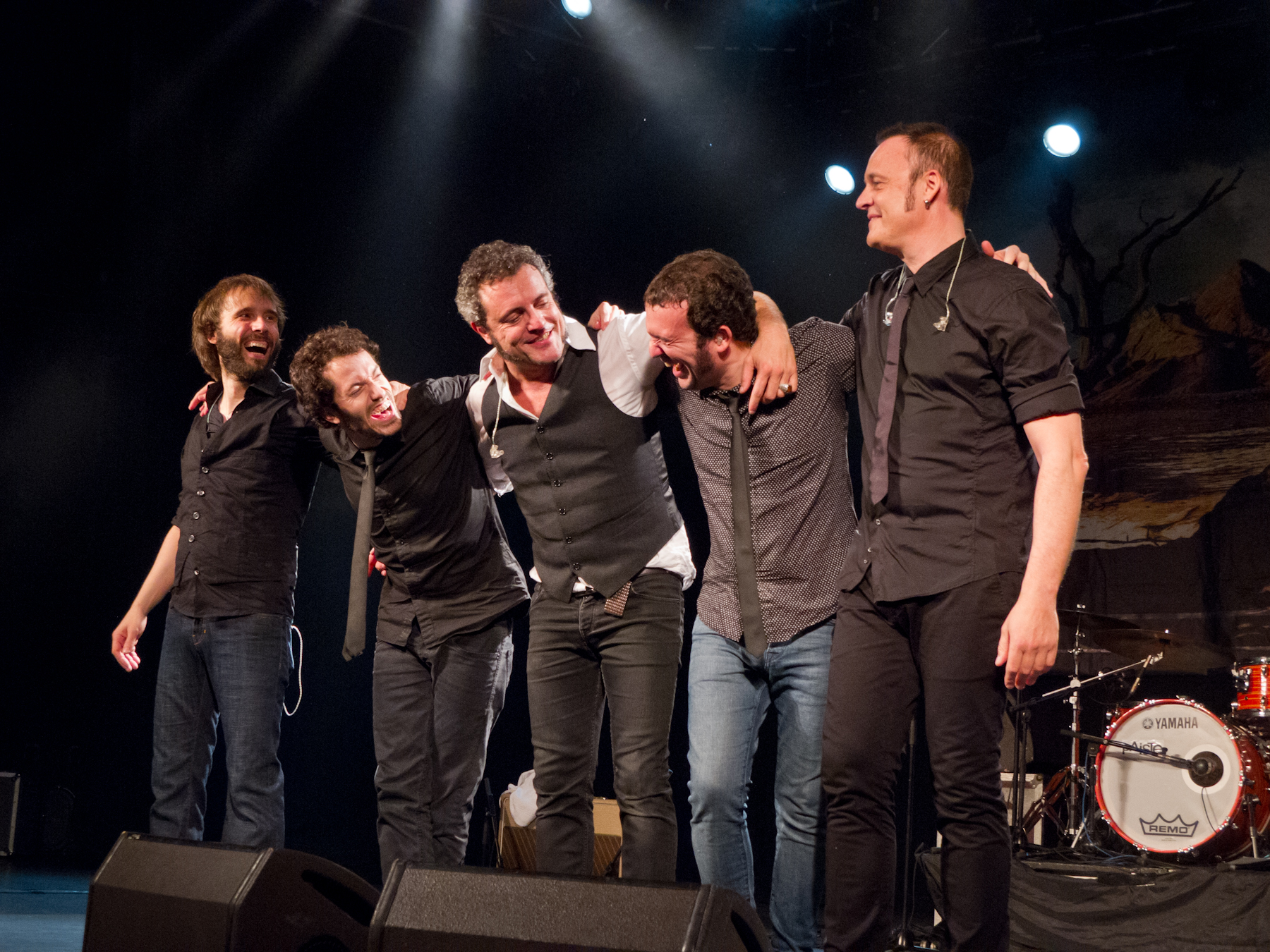 Spanish rock group M Clan during his "Arenas movedizas" Tour.